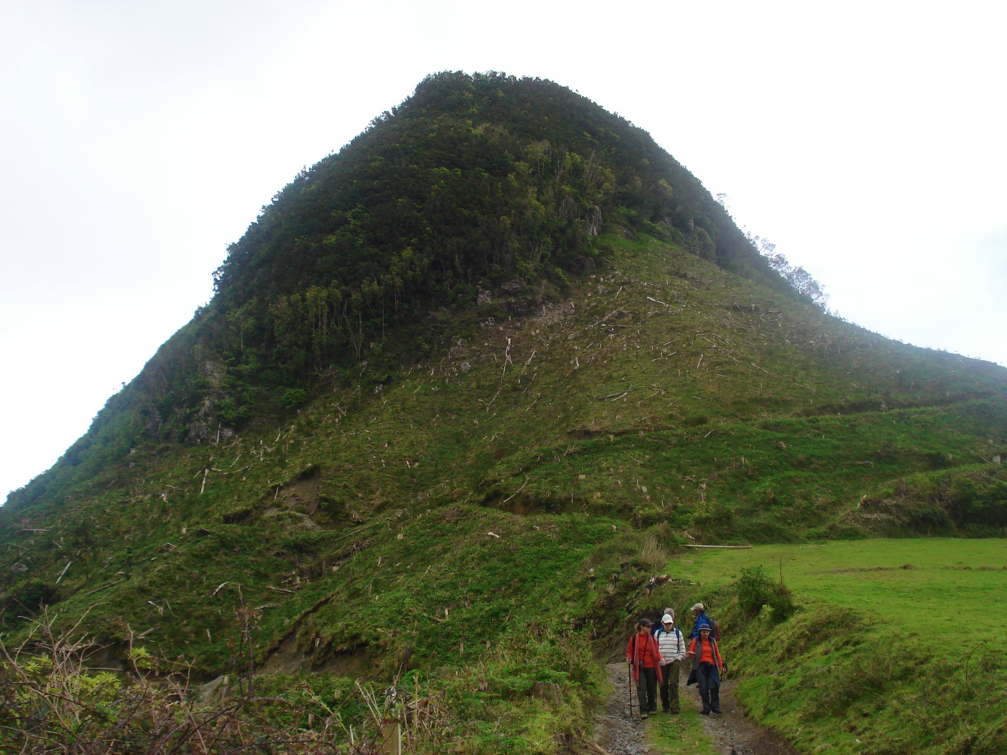 The deforested peak of Pico dos Bodes, in the civil parish of Ribeira Quente, municipality of Povoação (Azores), Portugal